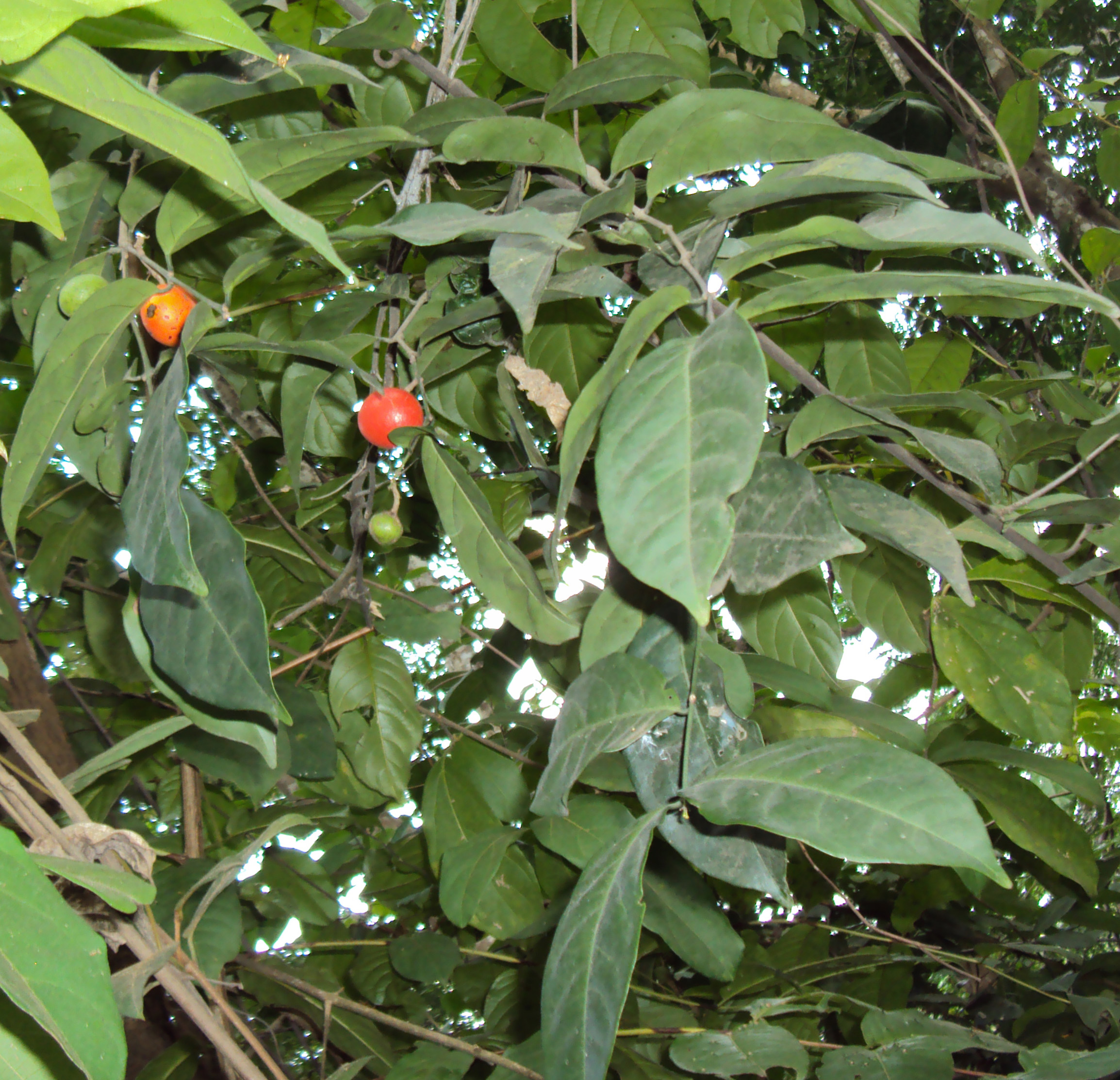 Salacia fruticosa